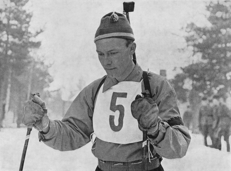 Photograph of the Finnish biathlet Kalevi Huuskonen (1932–1999).